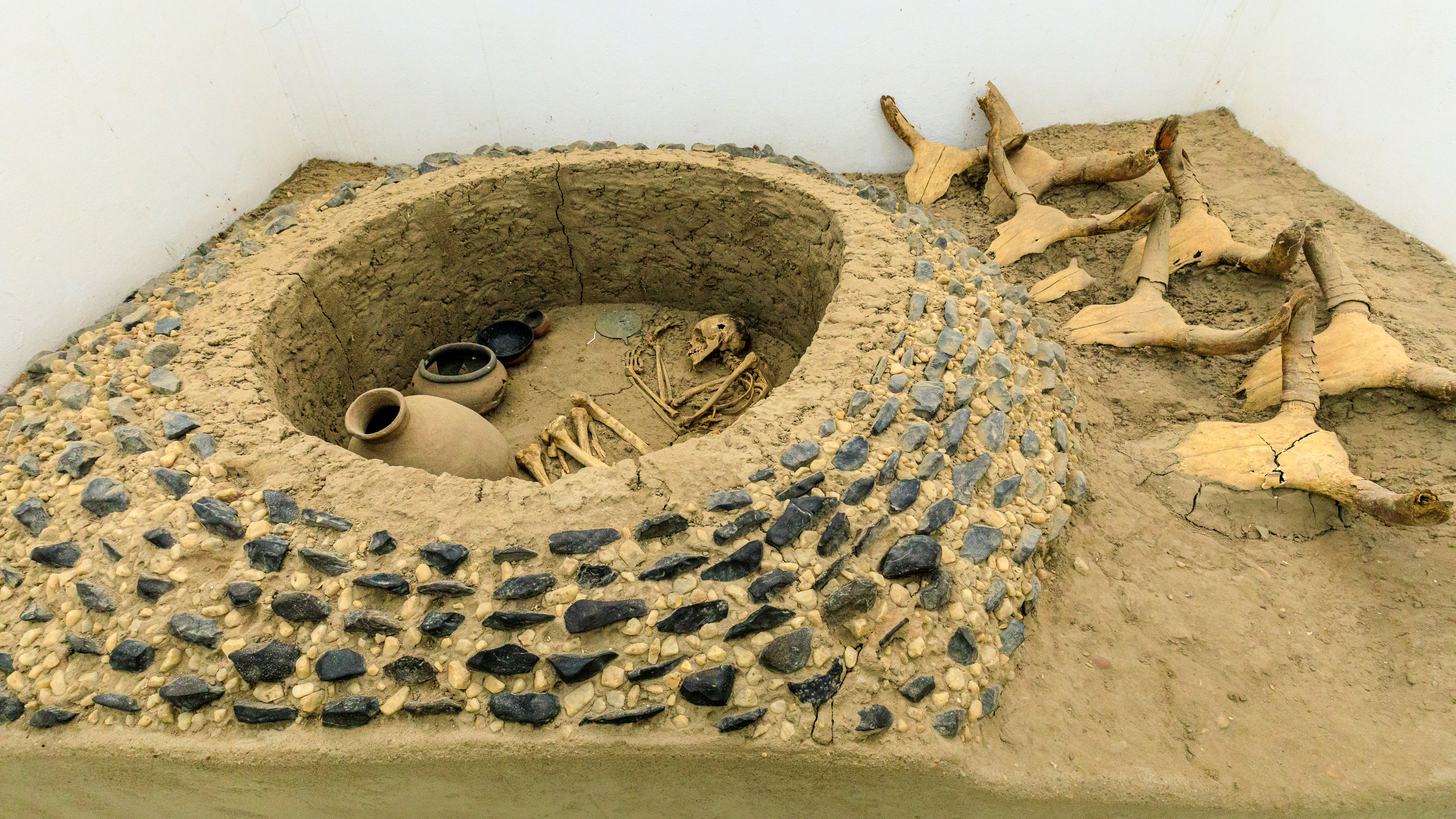 Early Kerma (2500 to 2450 BC), Neolithic, found in Kerma necropolis. The tumulus' top consists of small stone stelae and is surrounded by bucrania (bull skulls). The deceased lies in a cowering position on his right side, arms and head to the east.